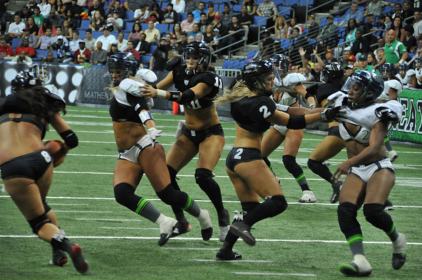 L.A. Temptation vs. Seattle Mist, May 4, 2013 - Photo by Glenn Francis of